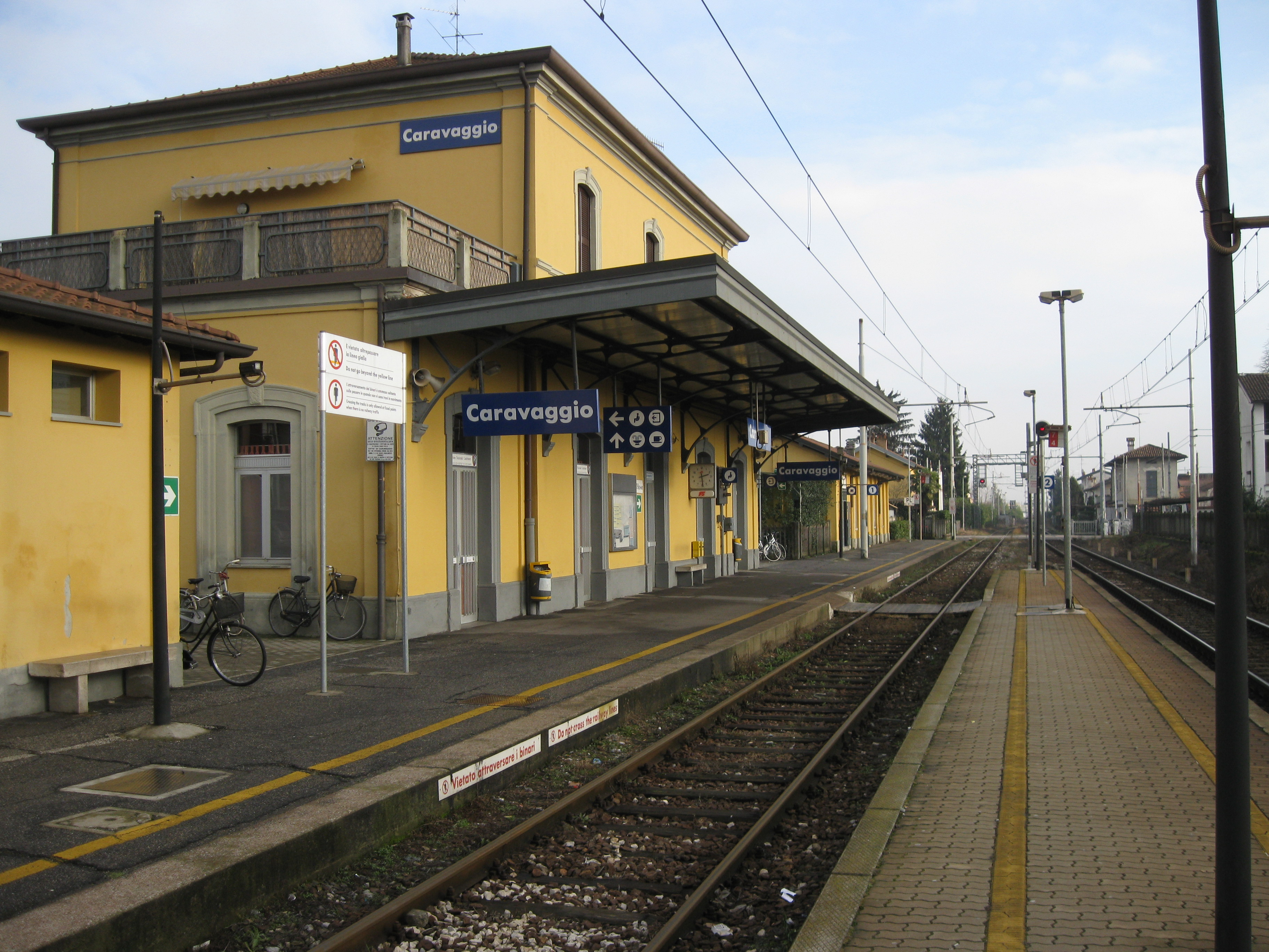 Railway station in Caravaggio, Lombardy, Italy